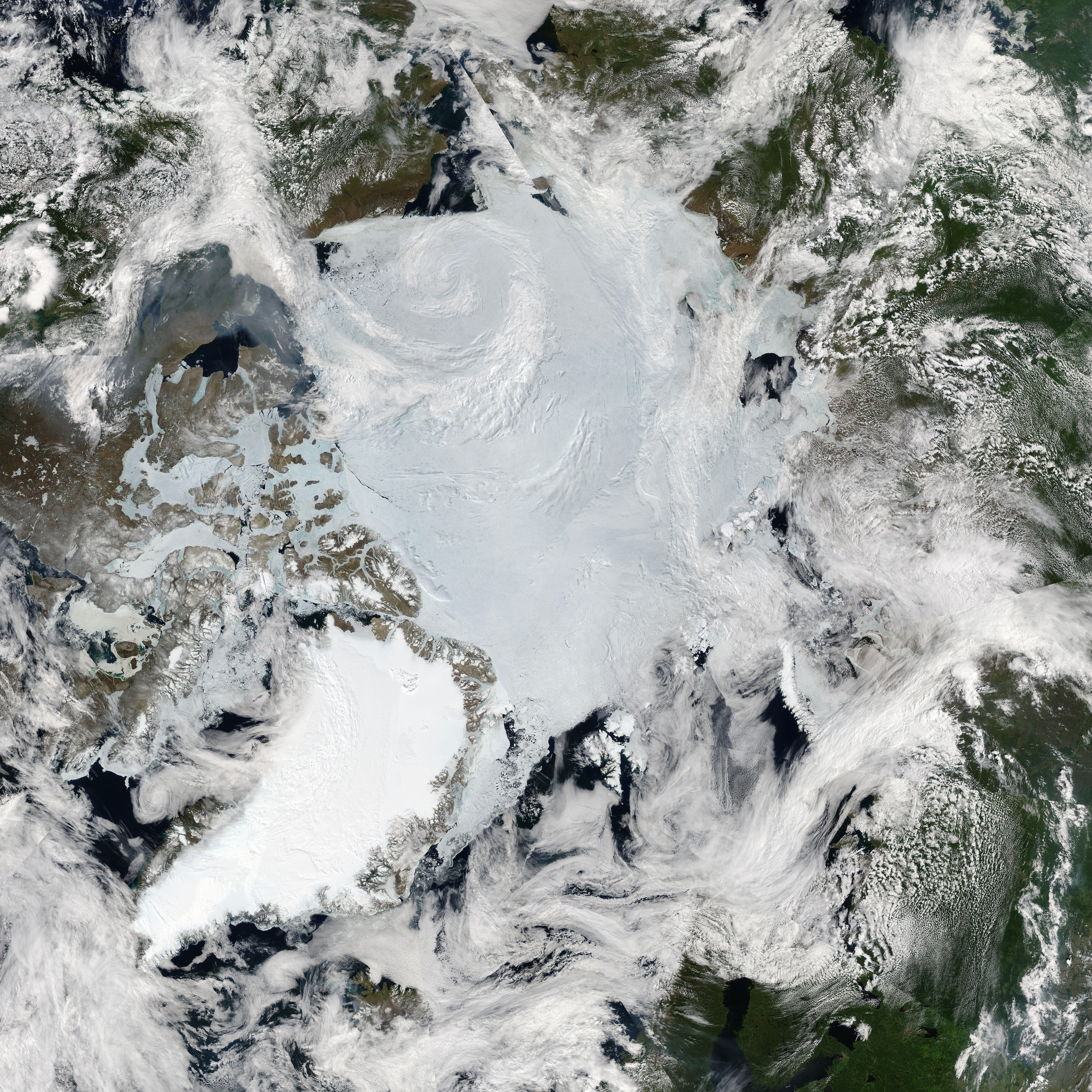 Mosaic of images of the Arctic by MODIS. The brightest spot in the image is Greenland, covered in snowy white. West and north of Greenland, sea ice appears pale gray-blue. Clouds, some translucent and some opaque, occur throughout the scene, distinguished from sea ice by their lighter colour, rougher texture, and less distinct margins. Clouds appear most prevalent north and west of Scandinavia, and between Alaska and the Russian Federation, but wide expanses of land and sea surface peer through cloud-free areas. Most of the Arctic Circle is cloud-free. Unrelated to the cloud cover, a dull gray smoke plume appears east of Alaska. The plume probably results from wildfires in Canada.